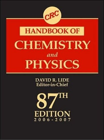 CRC Handbook of Chemistry and Physics, 87th Edition (Title)